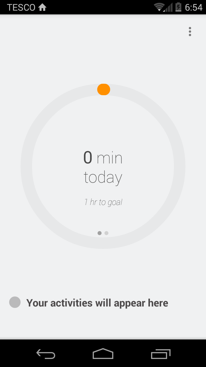 Screenshot of Google Fir Running on Android 4.4.4 KitKat